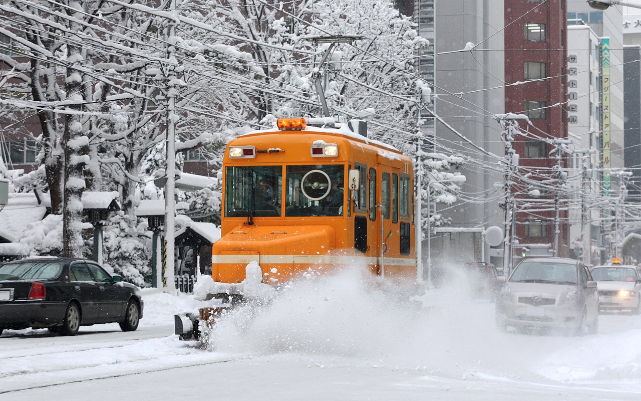 Sapporo Tram Type Yuki 10 ( No.11 ) snow broom car in action.